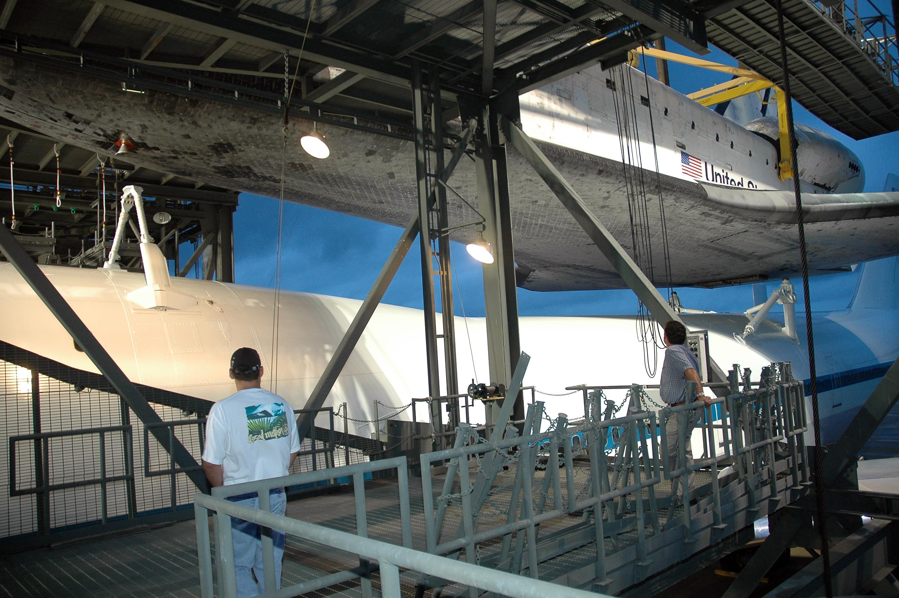 On the mate/demate device at Kennedy Space Center's Shuttle Landing Facility, technicians monitor the progress as Atlantis is lifted up from the shuttle carrier aircraft, or SCA, beneath it. The orbiter will be lowered to the ground and then towed to the Orbiter Processing Facility to begin processing for its next launch, mission STS-122 in December. Atlantis had been ferried back from Edwards Air Force Base following mission STS-117.